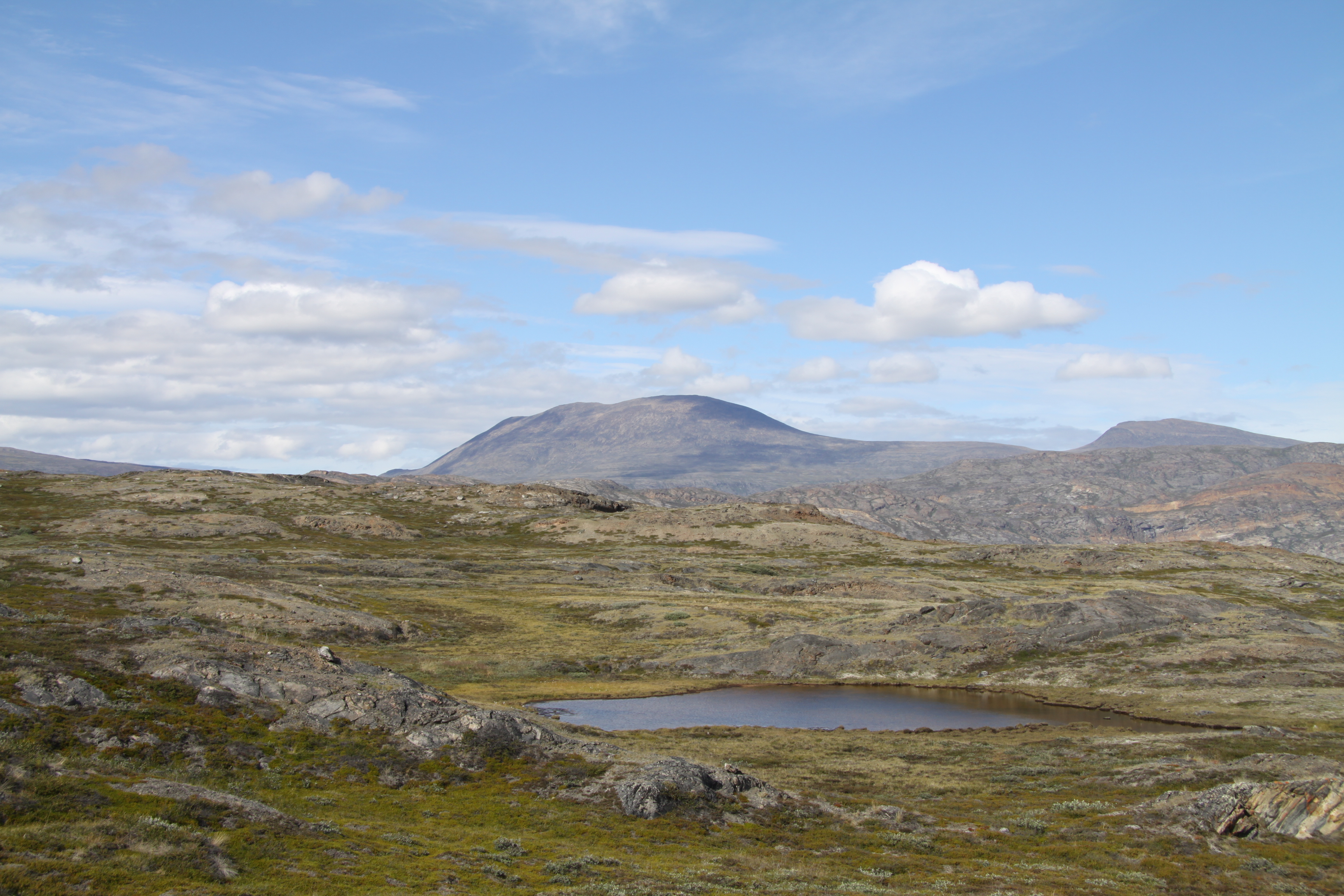 Pingu hill photographed during Arctic Circle Trail, Greenland